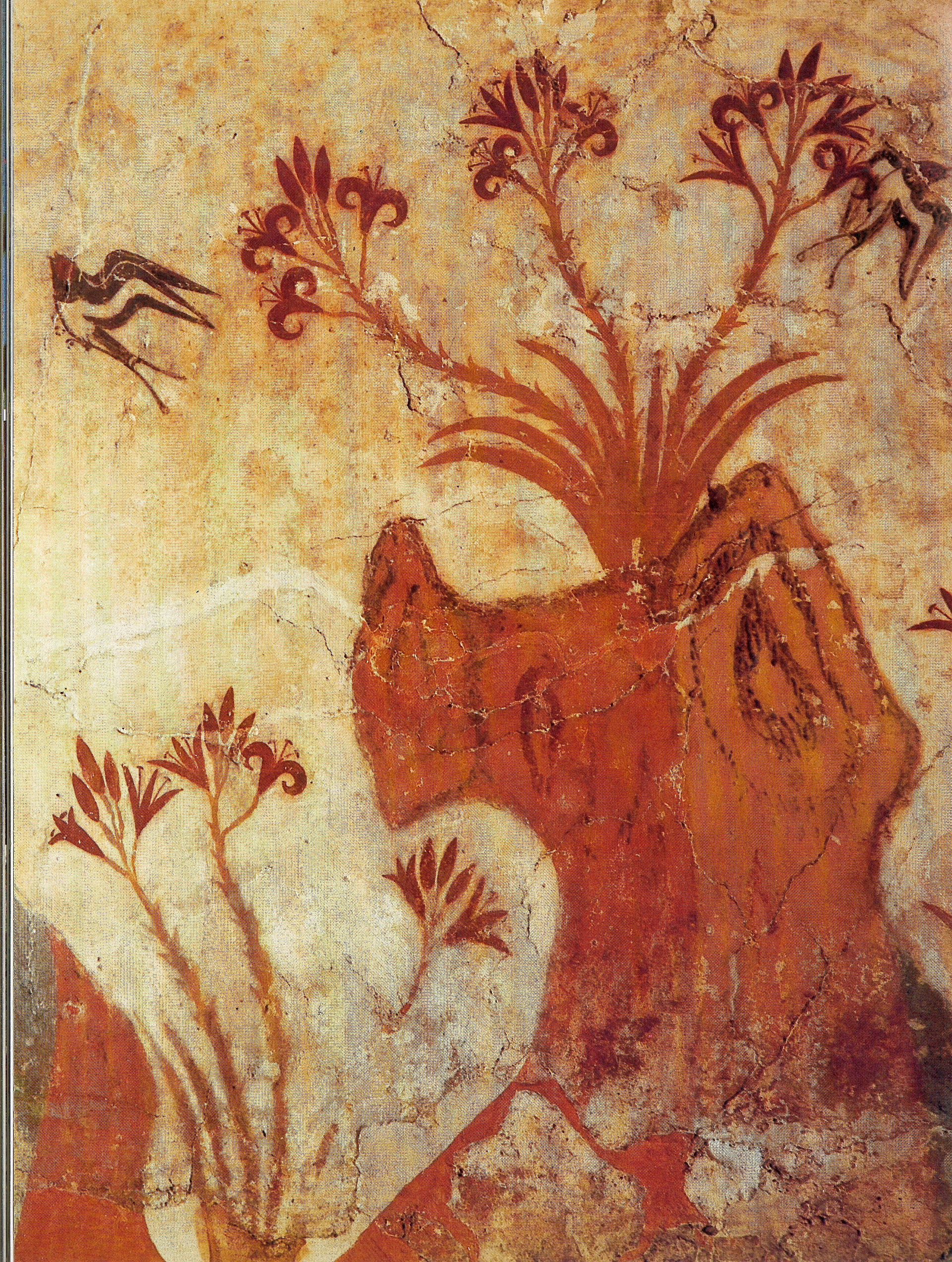 Frescoes of Lilium sp. in Santorin from 1500 BC.